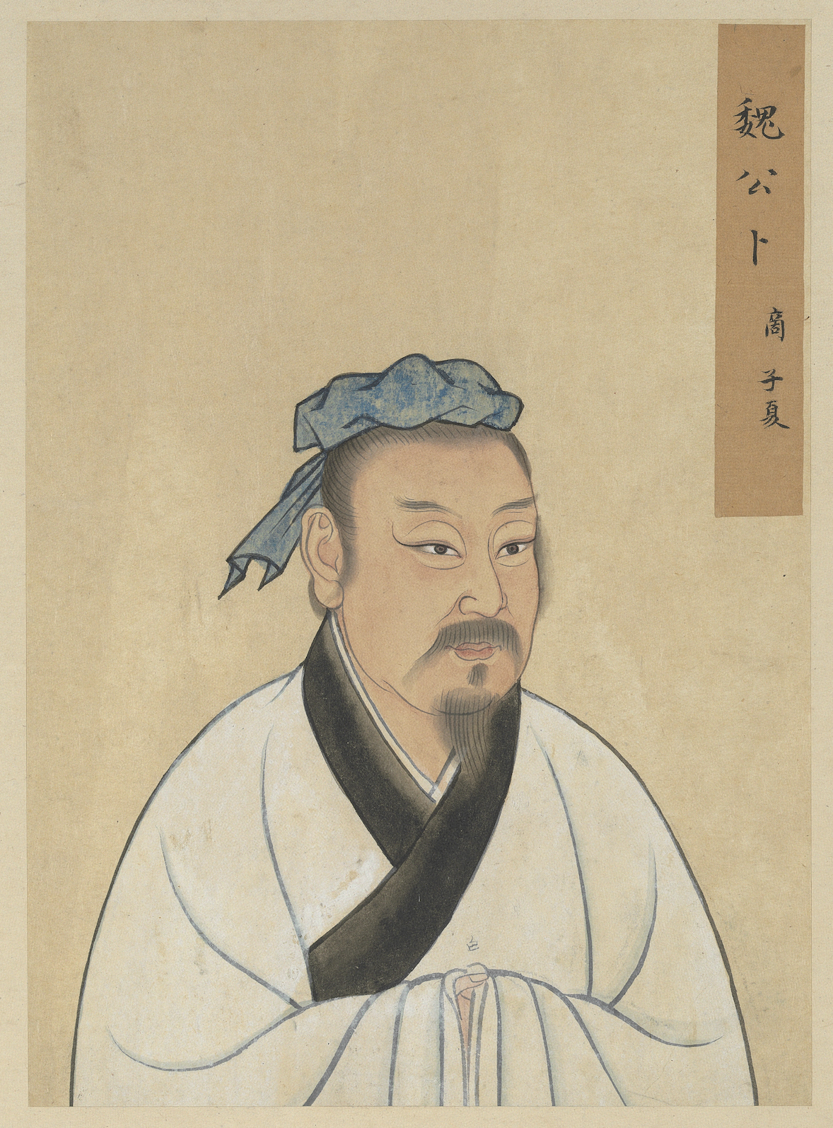 This depicts Bu Shang (卜商), styled Zixia (子夏).